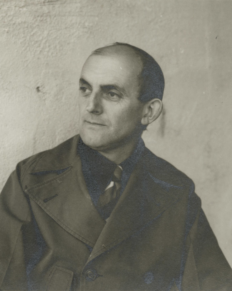 Photograph of Ansel Adams